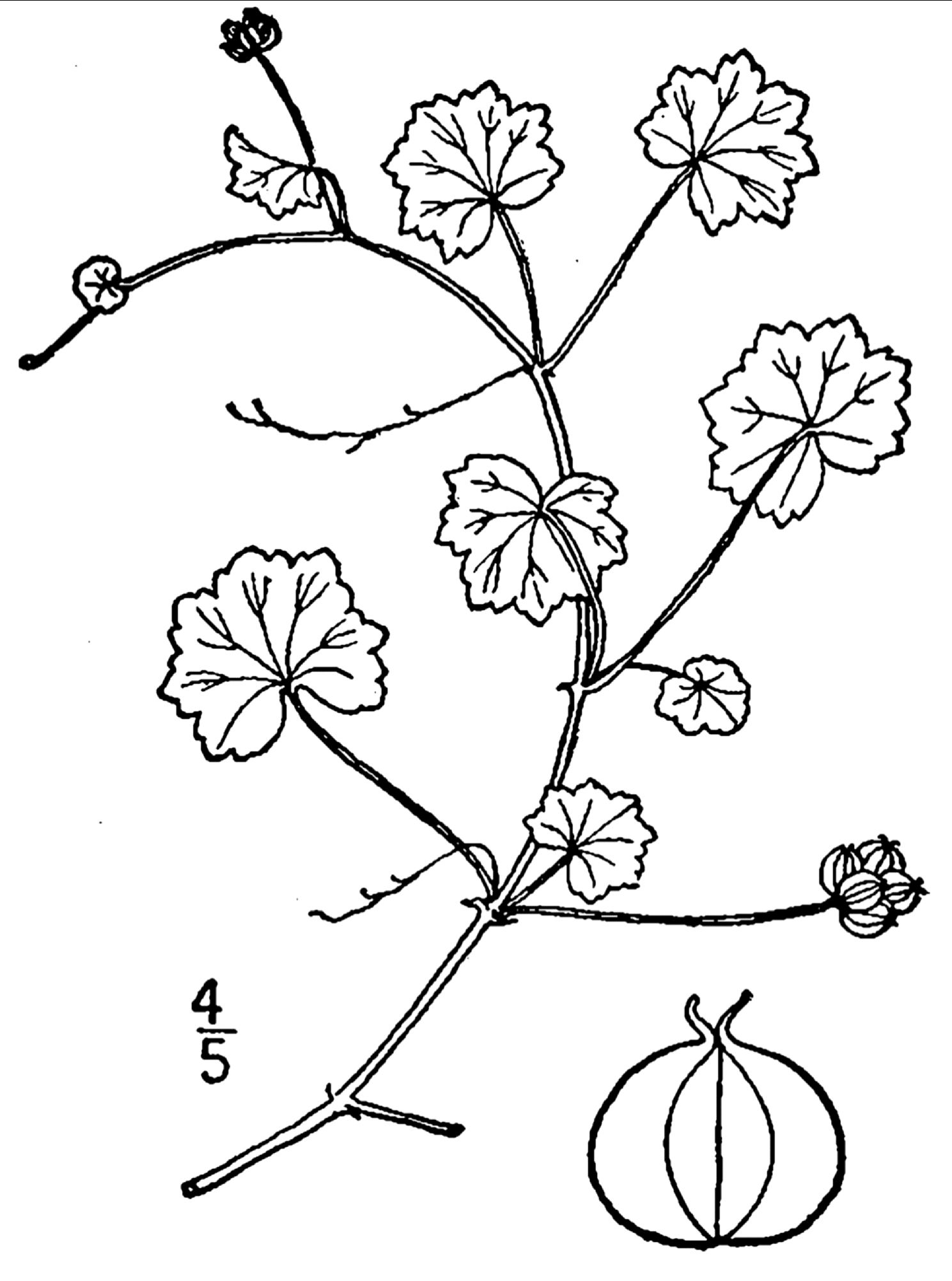 drawing of hydrocotyle sibthorpioides